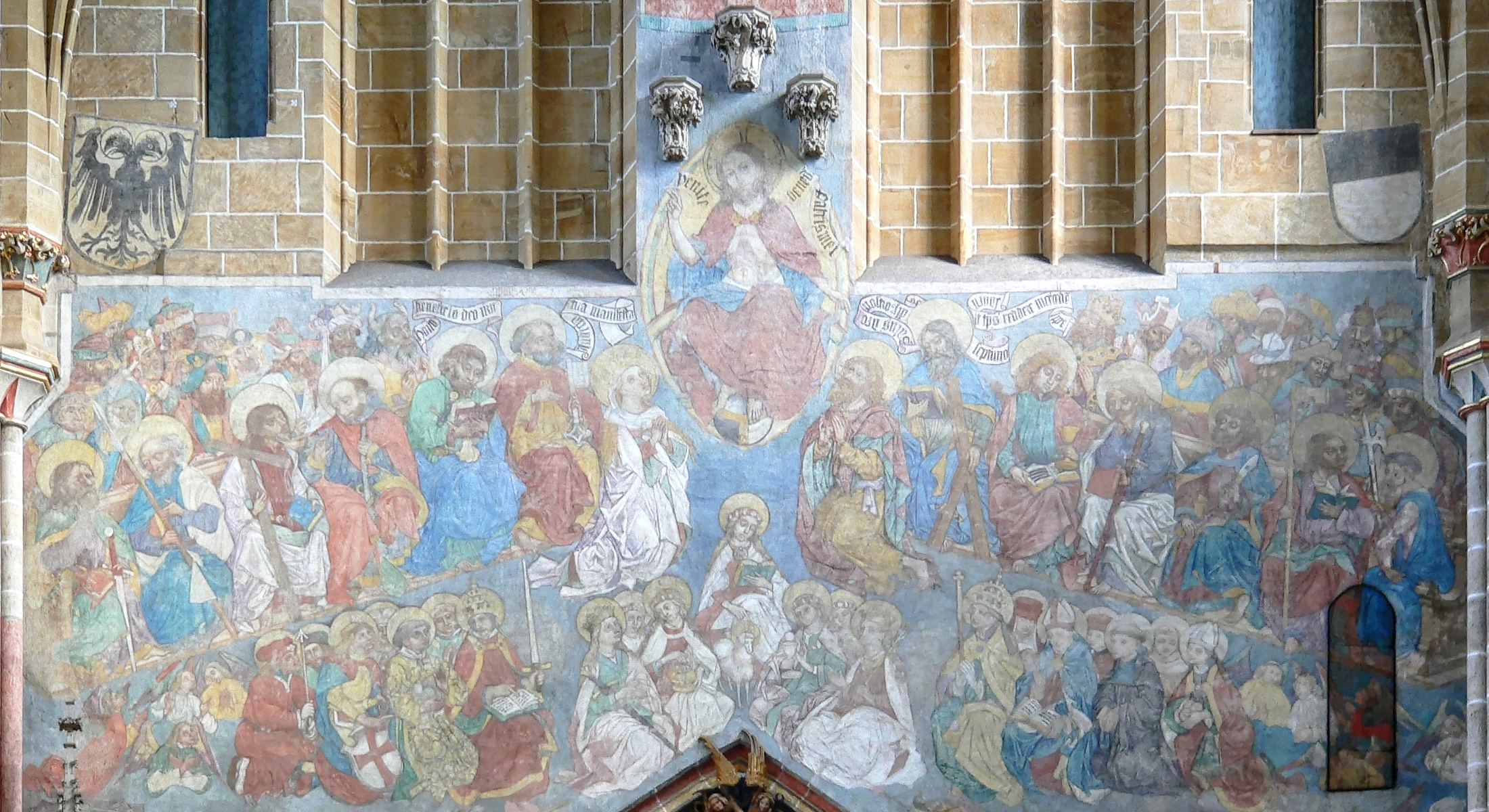 Lutheran cathedral "Ulmer Münster", Ulm, Germany: detail of the fresco above the arch of the choir (Last Judgement)